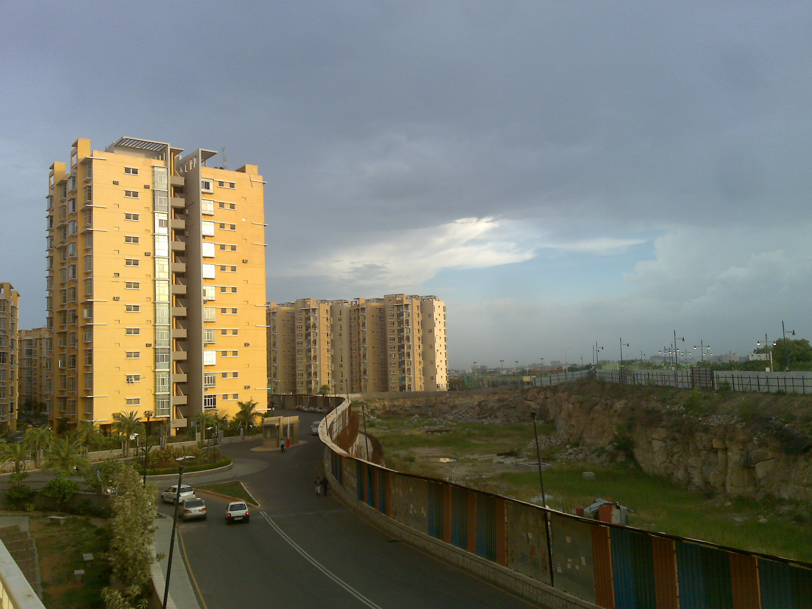 Malysian township at Kukatpally, Hyderabad